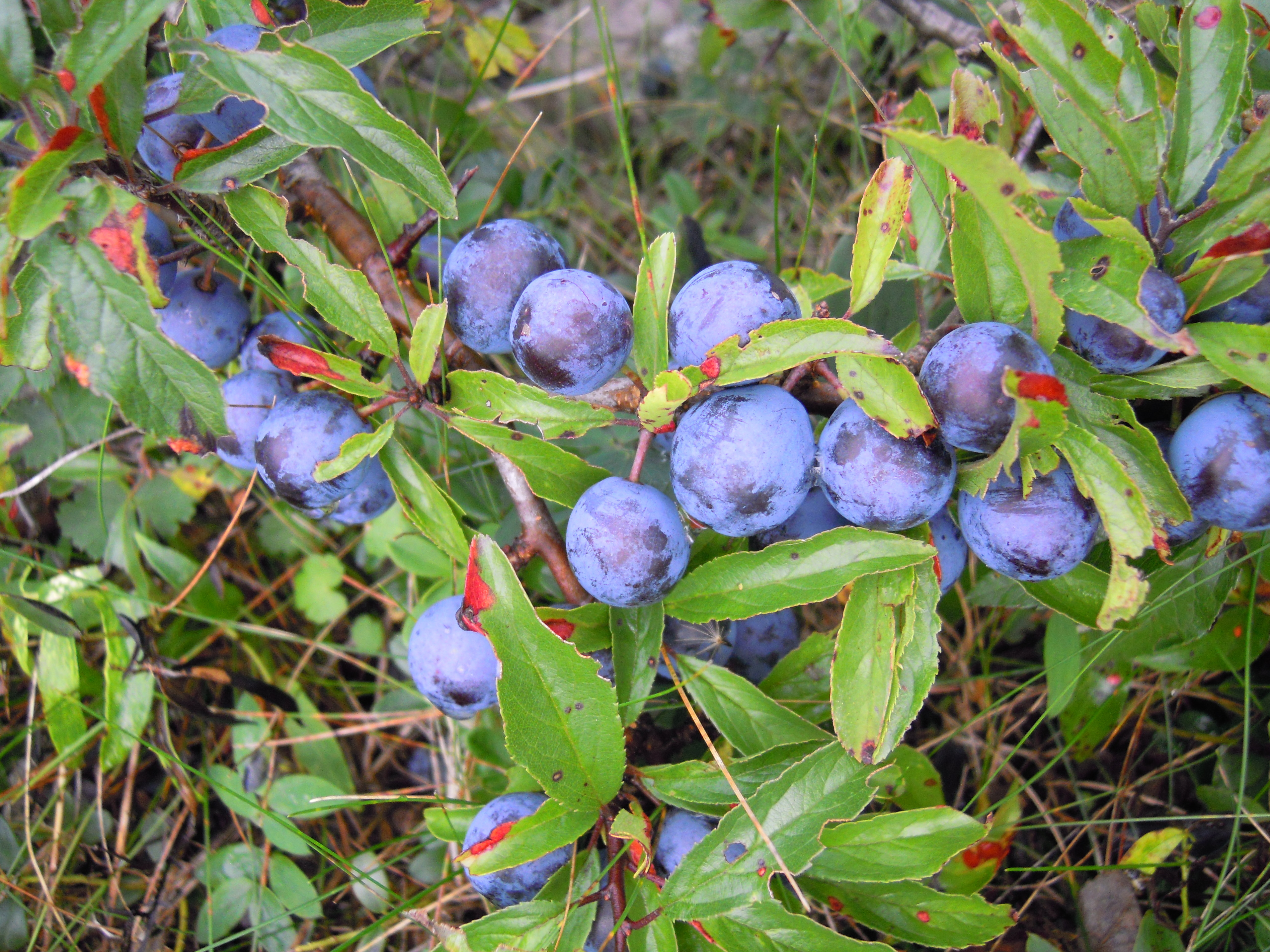 Prunus spinosa (blackthorn or sloe), Mølen, Norway. You are free to use this picture outside Wikipedia (see license), as long as you write: Photo: Arnstein Rønning